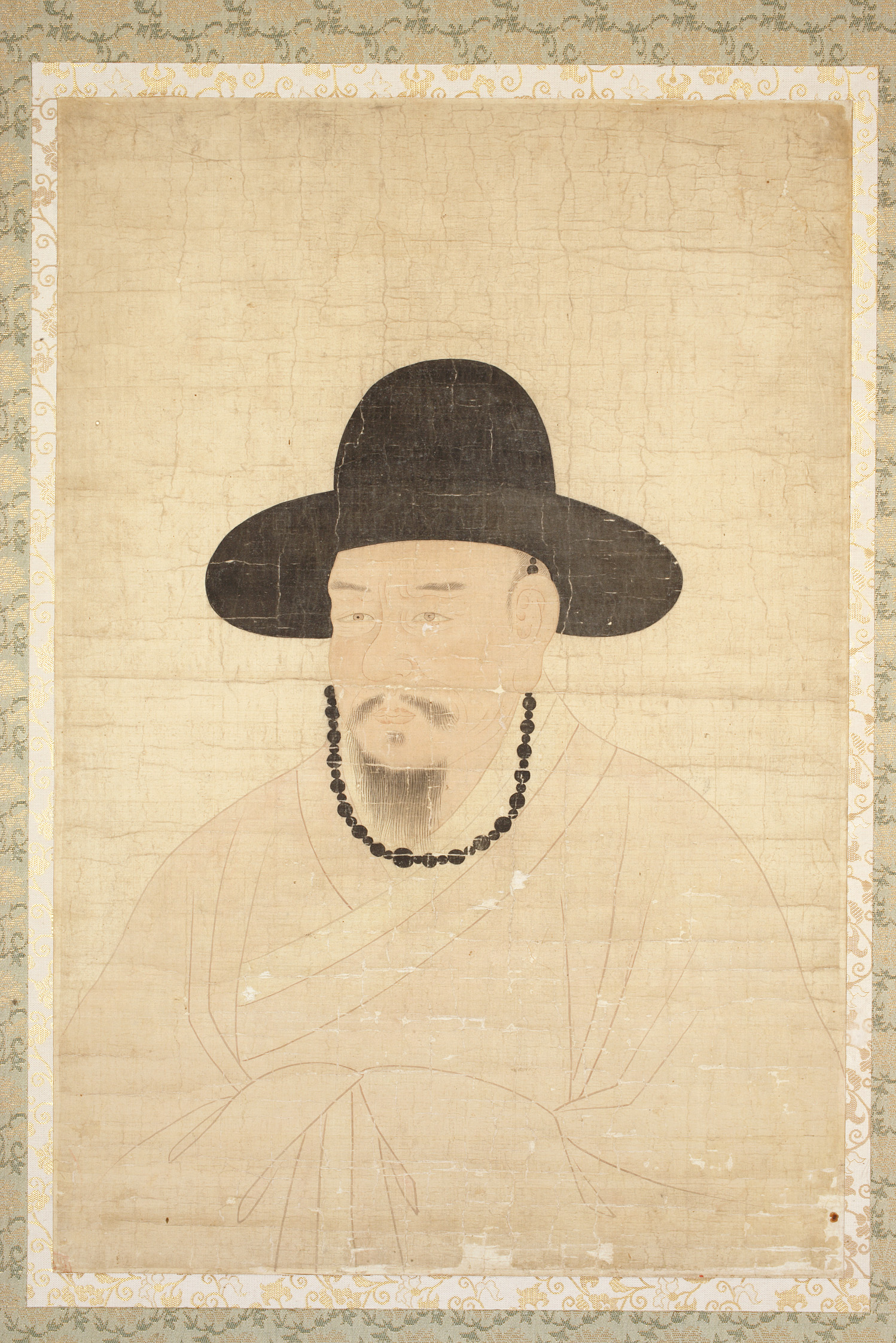 Portrait of Kim Si-seup (1435–1493)